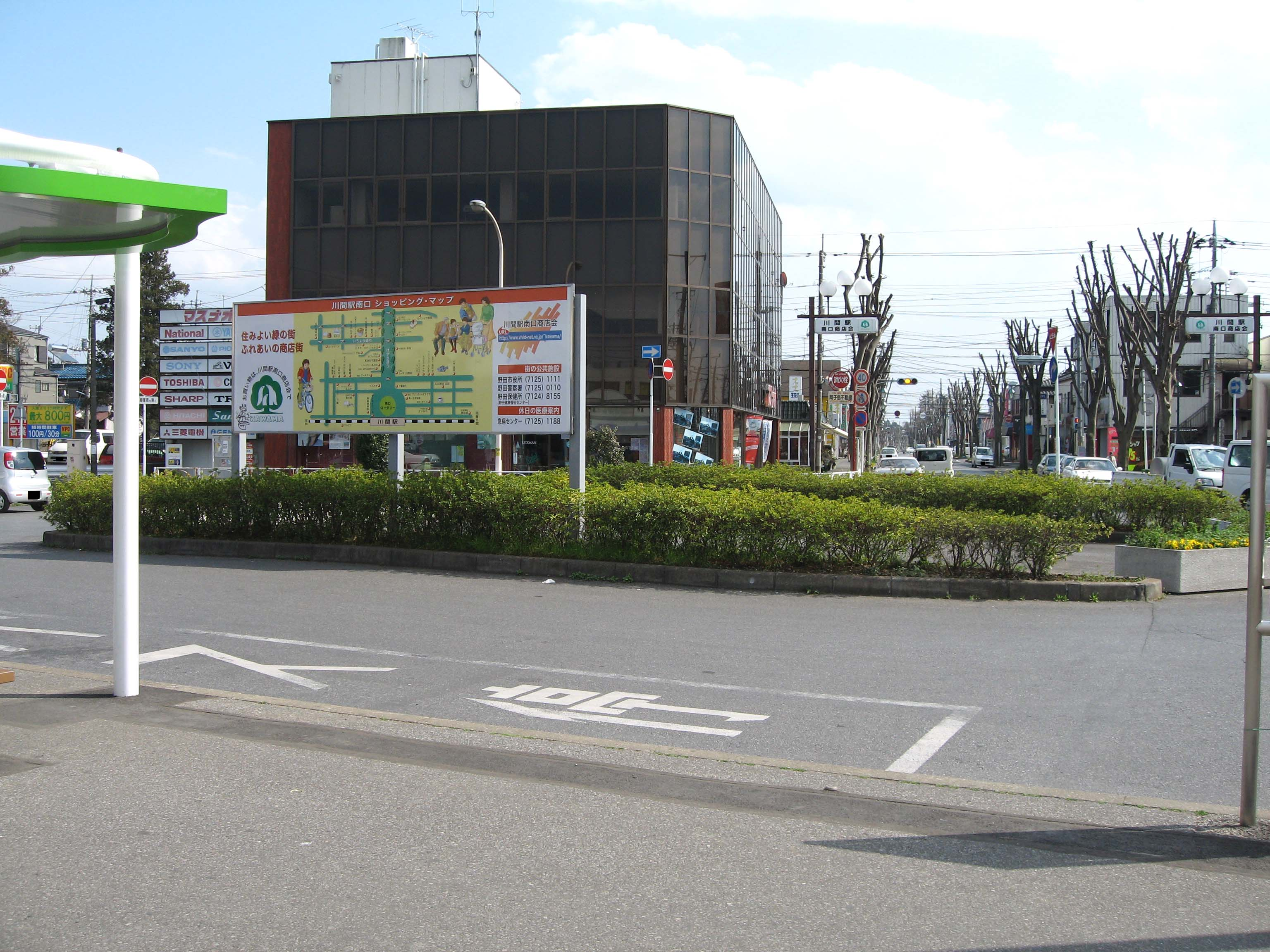 The forecourt on the south side of Kawama Station on the Tobu Noda Line in Chiba Prefecture, Japan